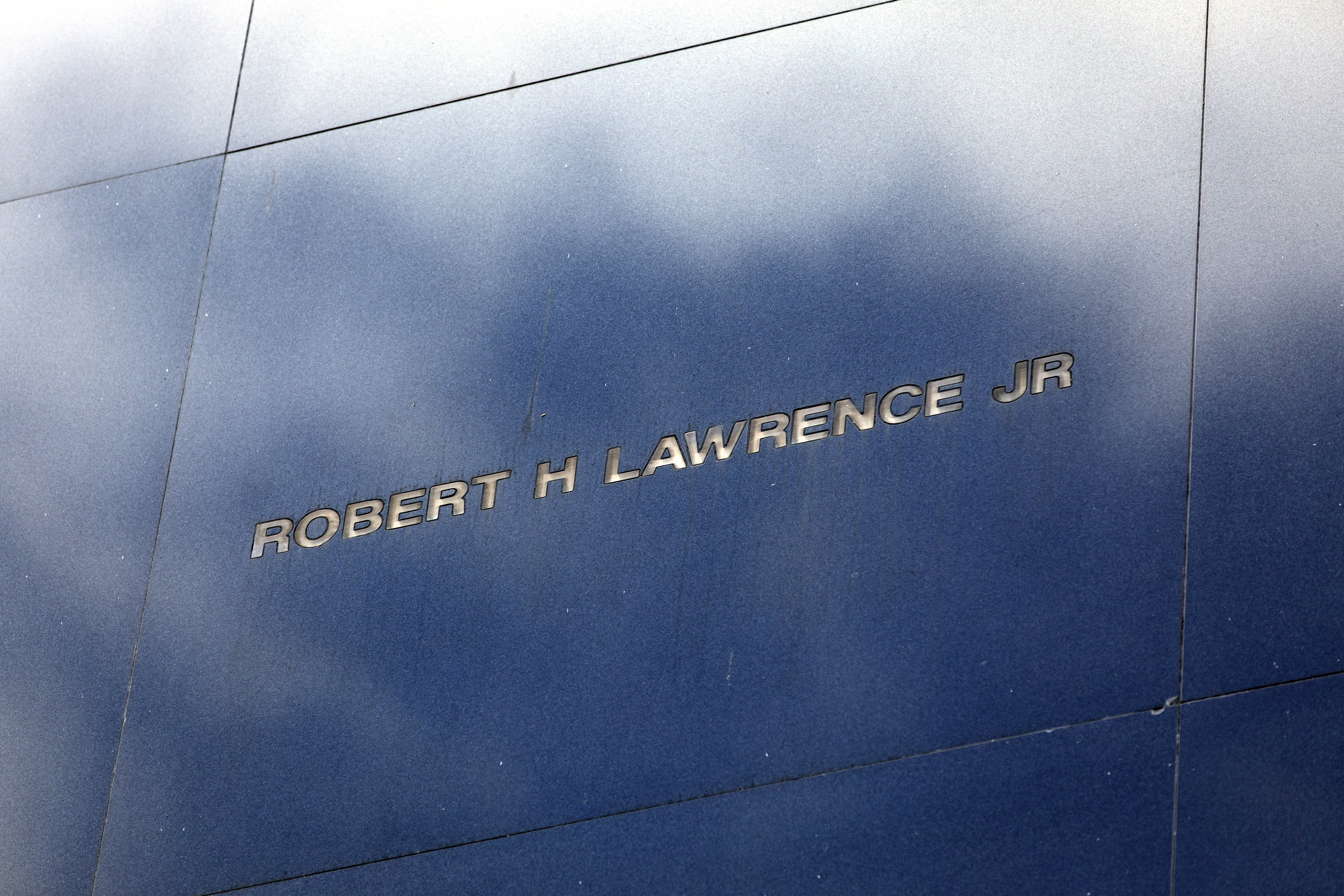 At the Kennedy Space Center's Visitor Complex, the name of U.S. Air Foce Maj. Robert Lawrence is one of those included on the Space Mirror Memorial which honors those lost in efforts to explore space. Selected in 1967 for the Manned Orbiting Laboratory Program, Lawrence was the first African-American astronaut. He lost his life in a training accident 50 years ago. The ceremony took place in the Center for Space Education at the Kennedy visitor complex.